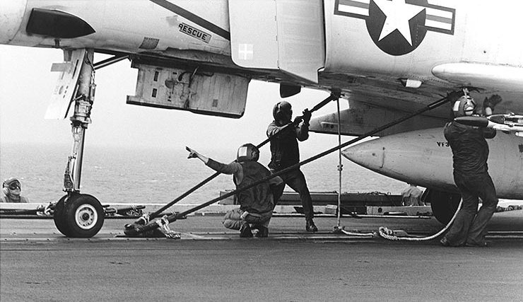 U.S. Navy catapult crewmen check the tension on the launch cable while preparing to catapult a McDonnell Douglas F-4J Phantom II of Fighter Squadron 33 (VF-33) "Tarsiers", during flight operations aboard the carrier USS Independence (CV-62) in the Atlantic Ocean, October 1974. VF-33 was assigned to Carrier Air Wing 7 (CVW-7) aboard the Independence for a deployment to the Mediterranean Sea from 19 July 1974 to 21 January 1975.